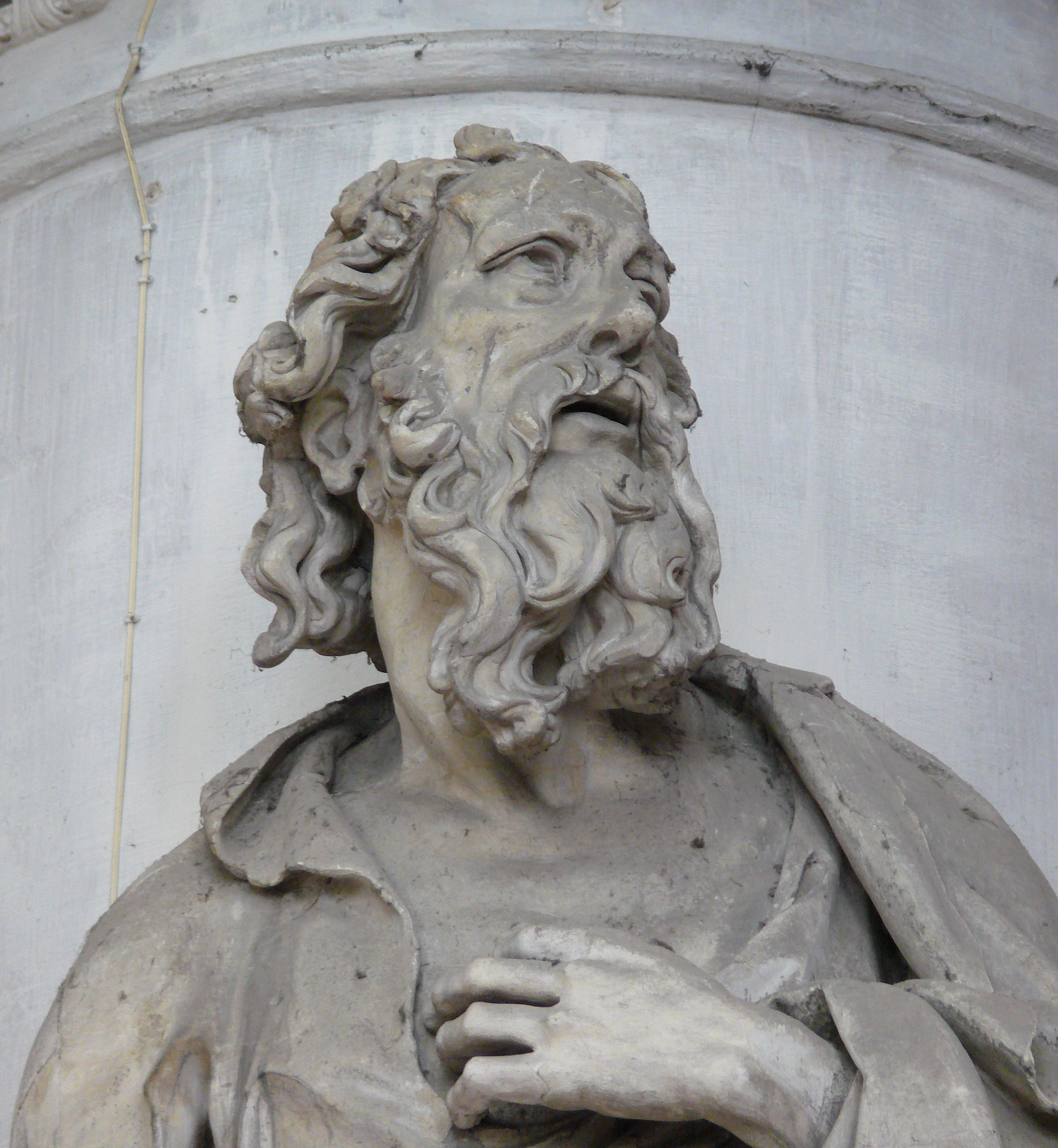 Sculpture of Saint Andrew, one of the apostles, in St-Rumbold's Cathedral (Mechelen, Belgium) by Lucas Faydherbe.